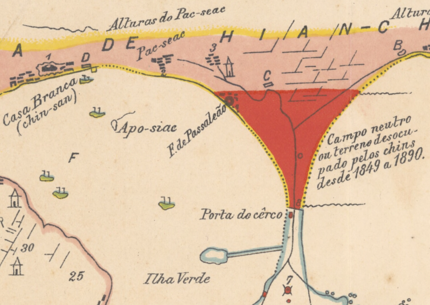 Section of a map showing the boundary of Macao.